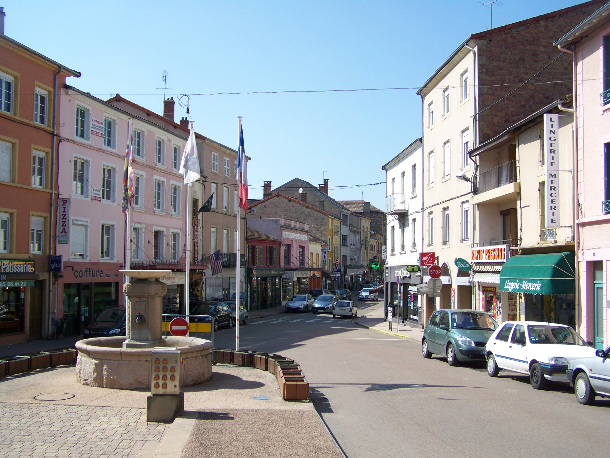 Downtown of French commune of Chauffailles in Saône-et-Loire.